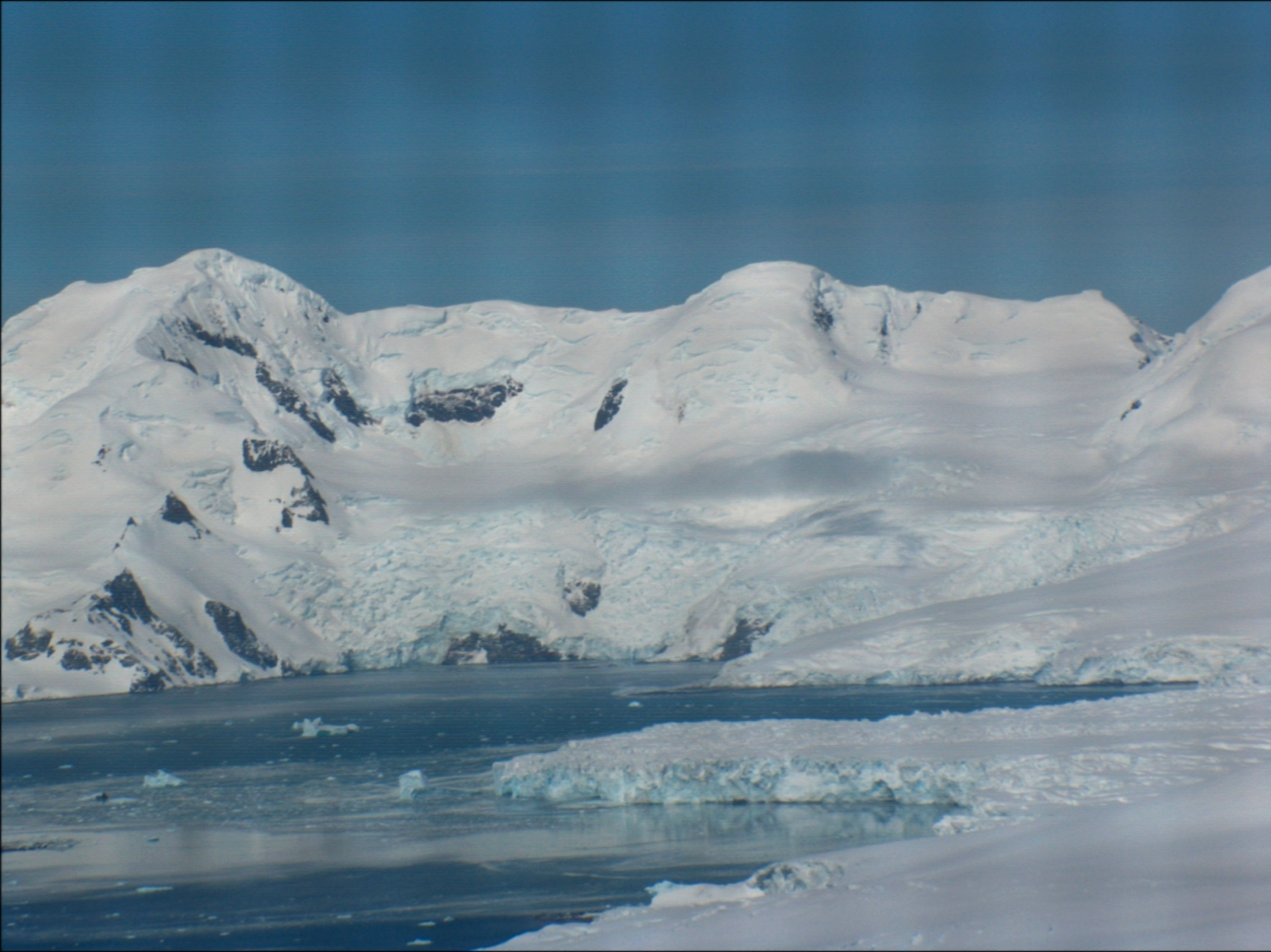 Elemag Point on Livingston Island, Antarctica seen from Vidin Heights, Livingston Island